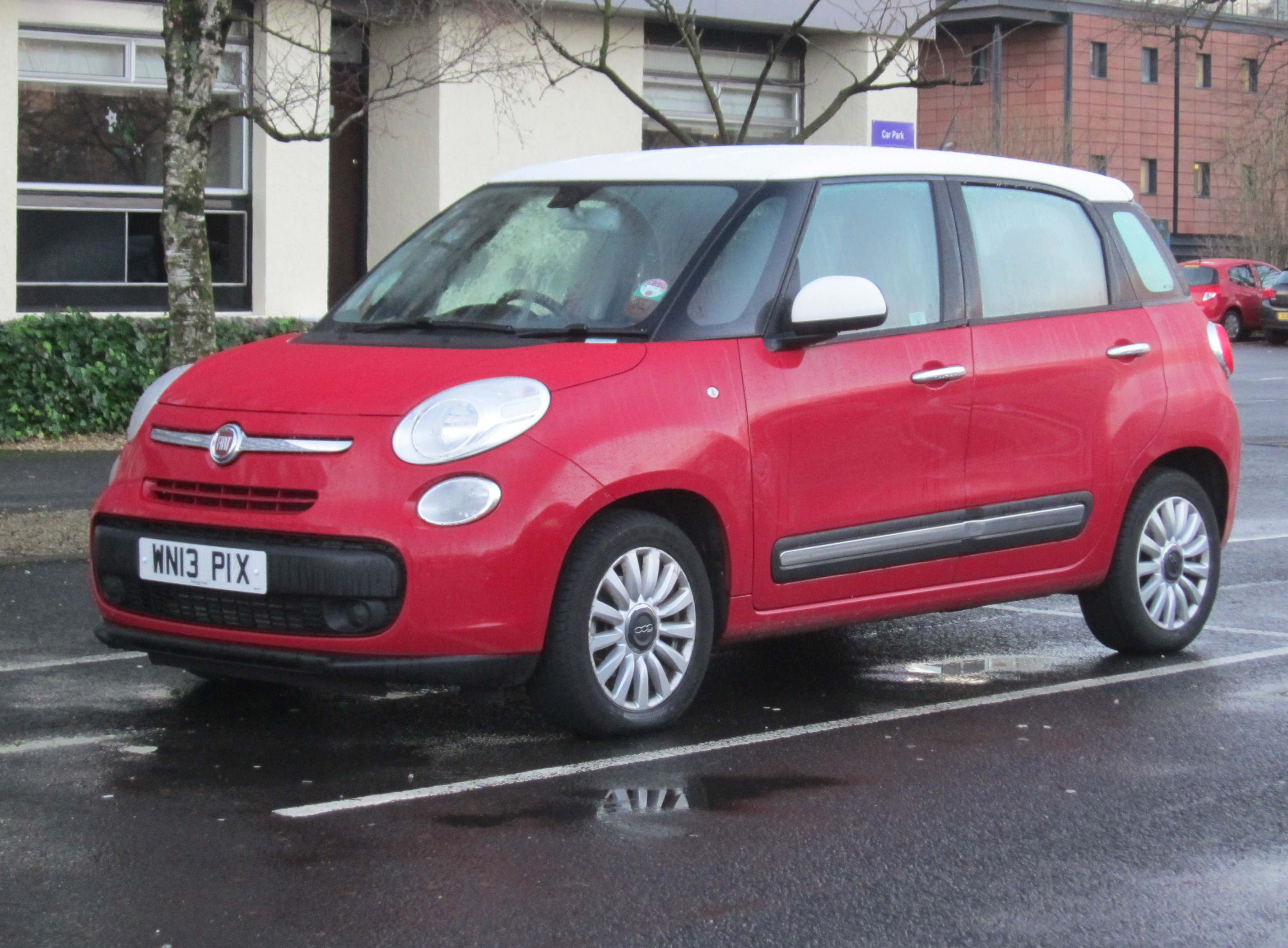 Fiat 500L diesel in Glasgow License plate has been changed for anonymisation purposes. Date and place codes remain correct, however.